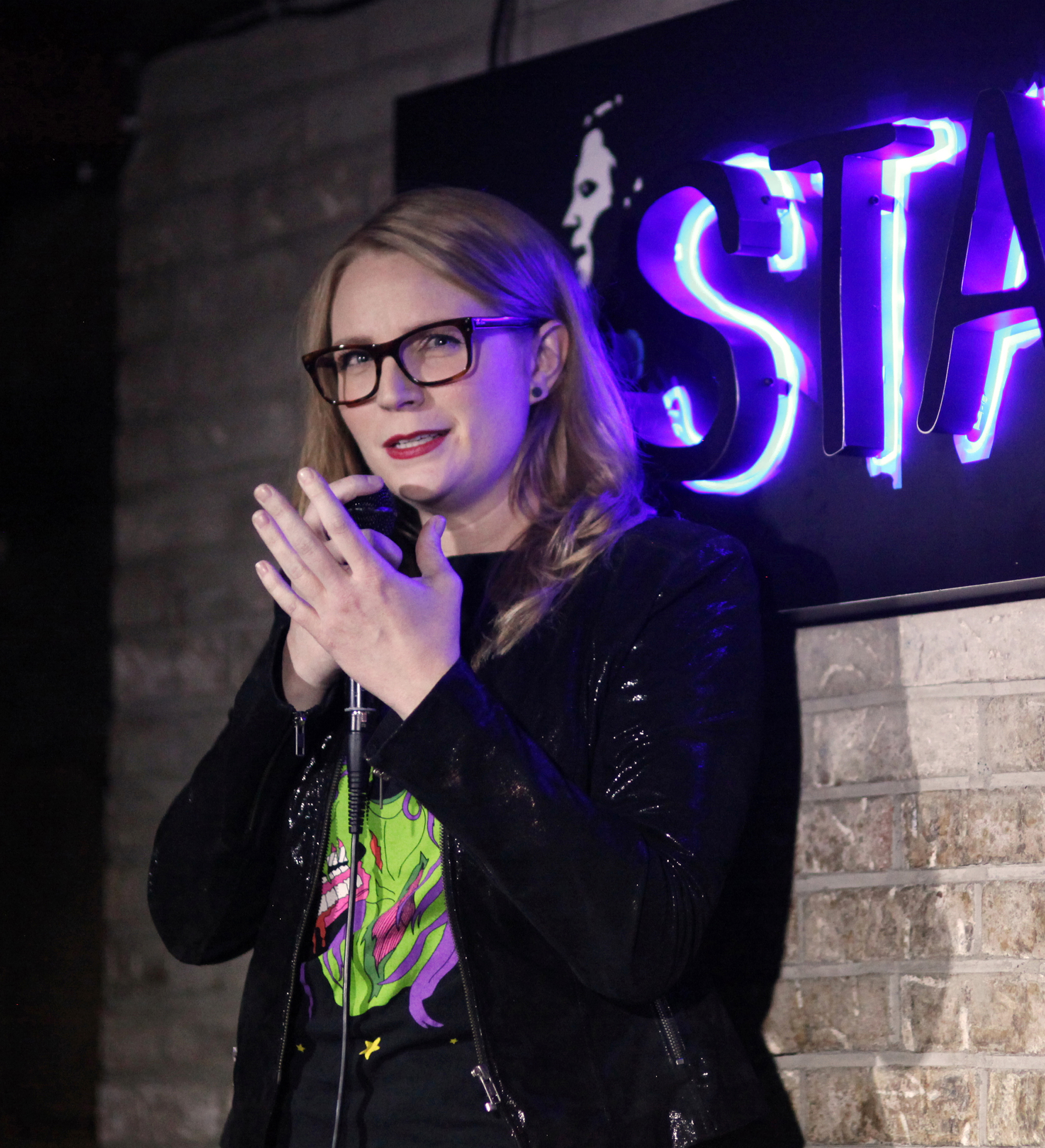 Tarver performing at The Stand in May 2016.